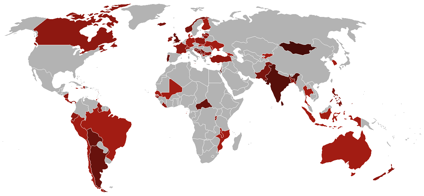 Light red=Countries with female heads of government as of 2006. Dark red=Countries with female heads of government before 2006